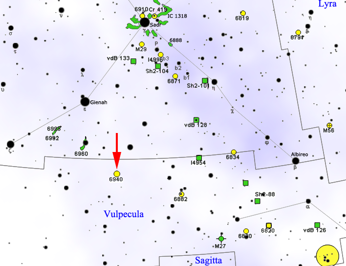 Map of NGC 6940